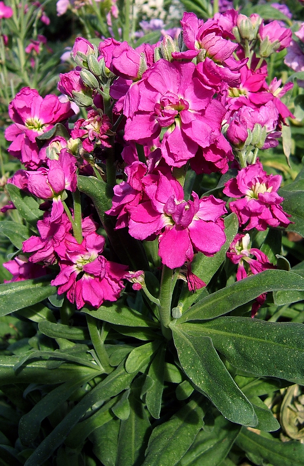 Plants growing in a half shady place at 240 m in Rems Valley, a warm viniculture region in Baden Württemberg, Germany.